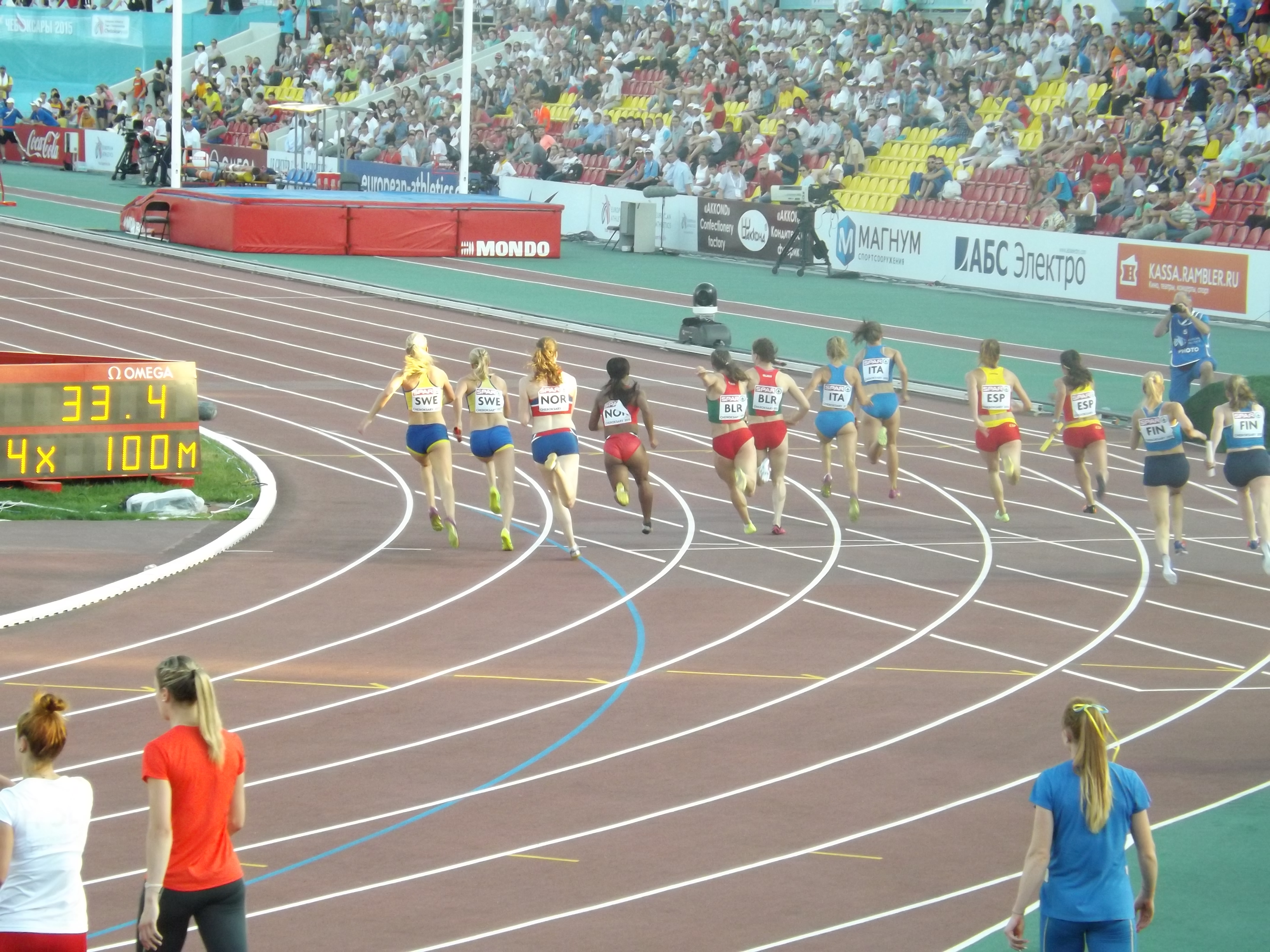 Heat 1 in women 4x100 metres relay during 2015 European Team Champioships